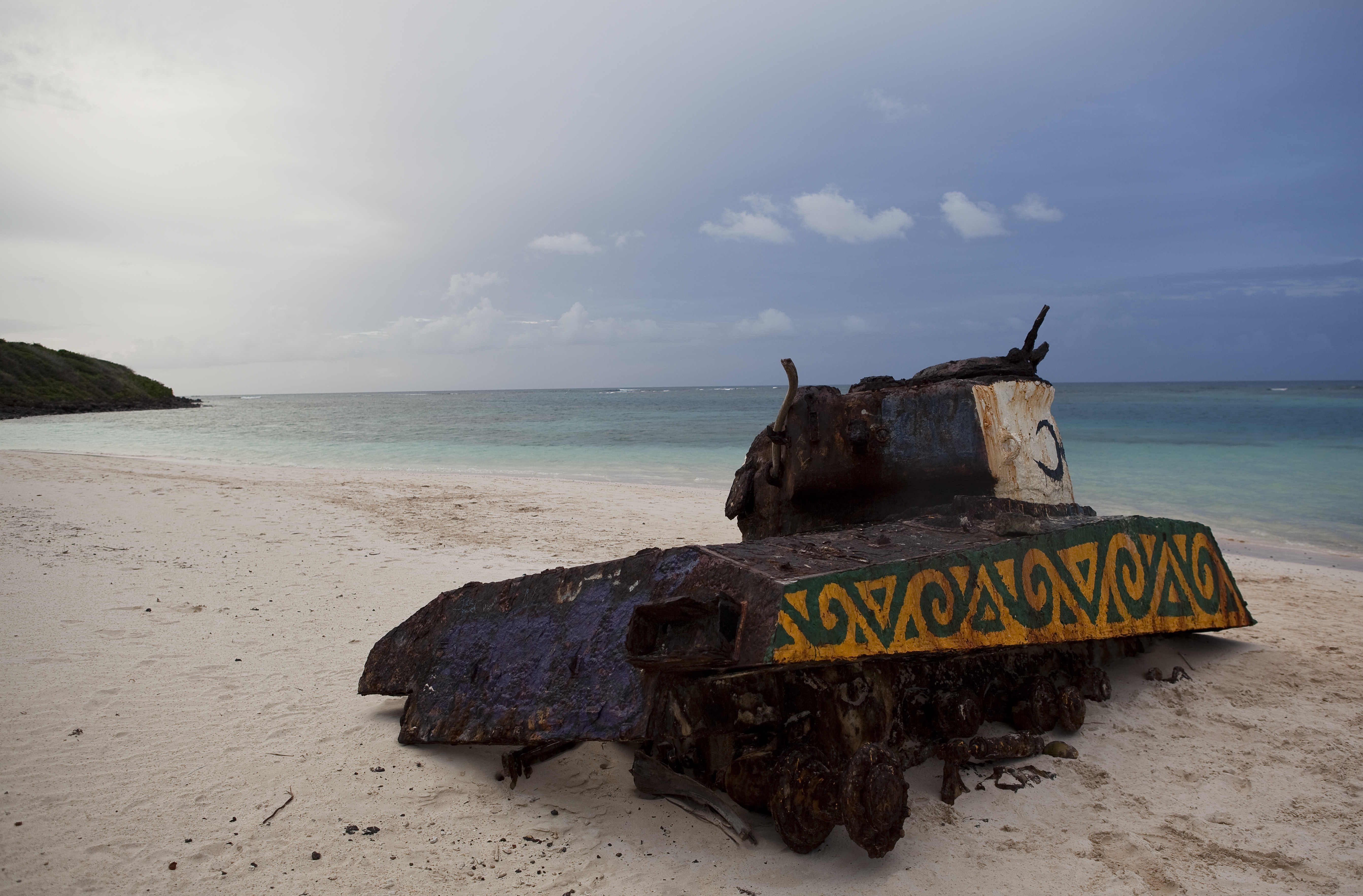 Wreck of a tank on Flamenco Beach in Culebra, Puerto Rico at sunset.